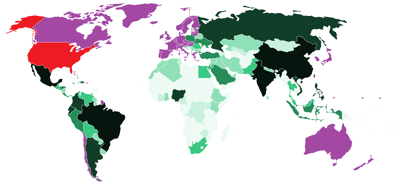 Issued B-1,2 visas in fiscal 2017 United States Visa exempt nationalities Over 400 thousand issued visas Over 100 thousand issued visas Over 50 thousand issued visas Over 25 thousand issued visas Over 10 thousand issued visas Over 5 thousand issued visas Under 5 thousand issued visas